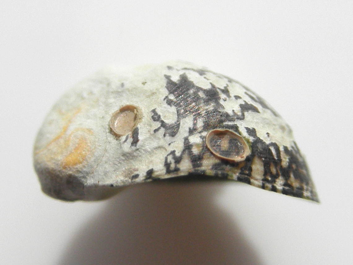 Photo of a lateral view of a shell of Theodoxus fluviatilis. The width of this shell is 8 mm and the height of the shell is 6 mm. There are two remnants of egg capsules.